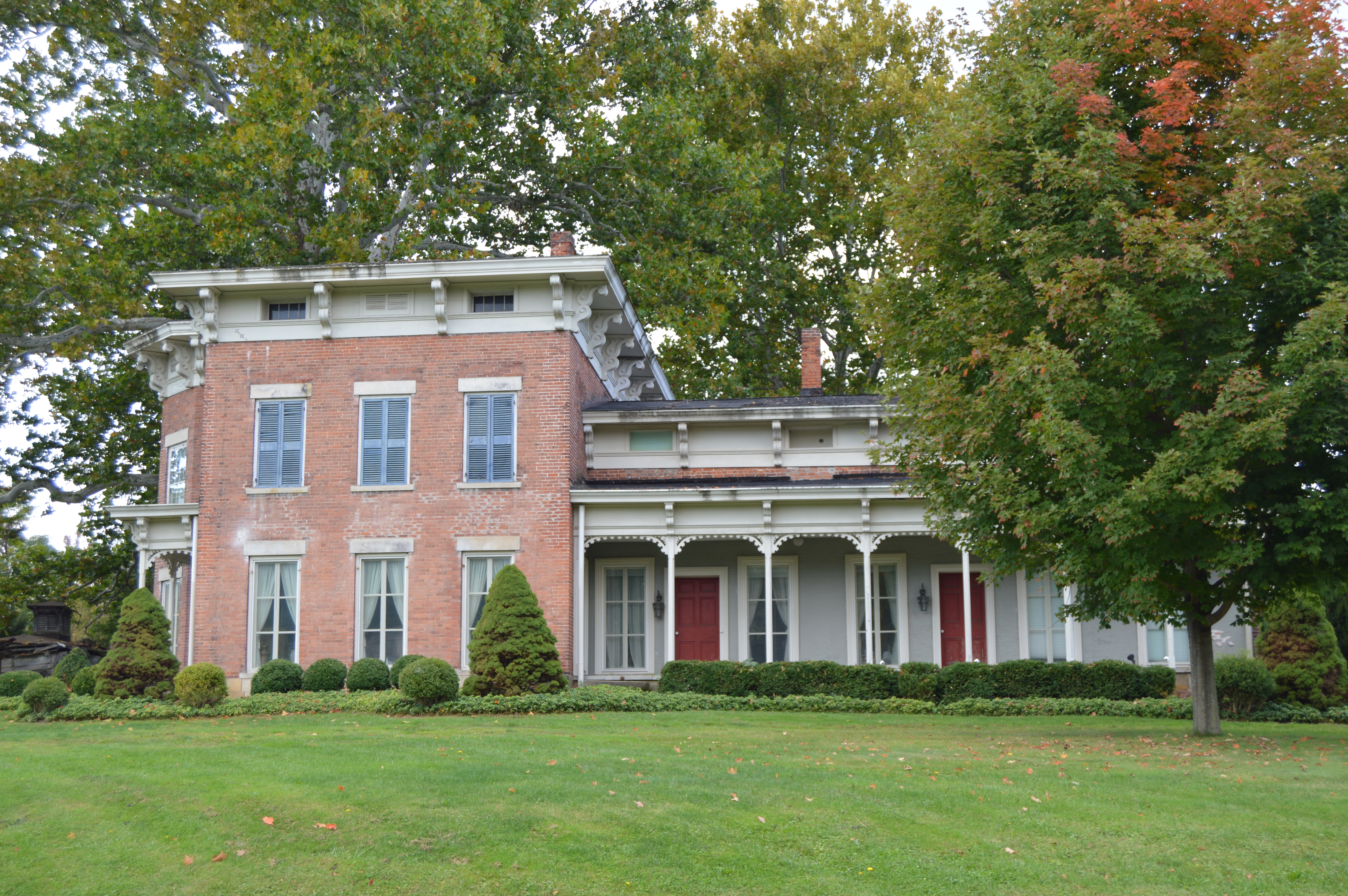 Front of the Eliphalet Austin House, located at 1879 State Route 45 in Austinburg, Ohio, United States. Built in 1815 and vastly expanded in the 1860s, it is listed on the National Register of Historic Places.